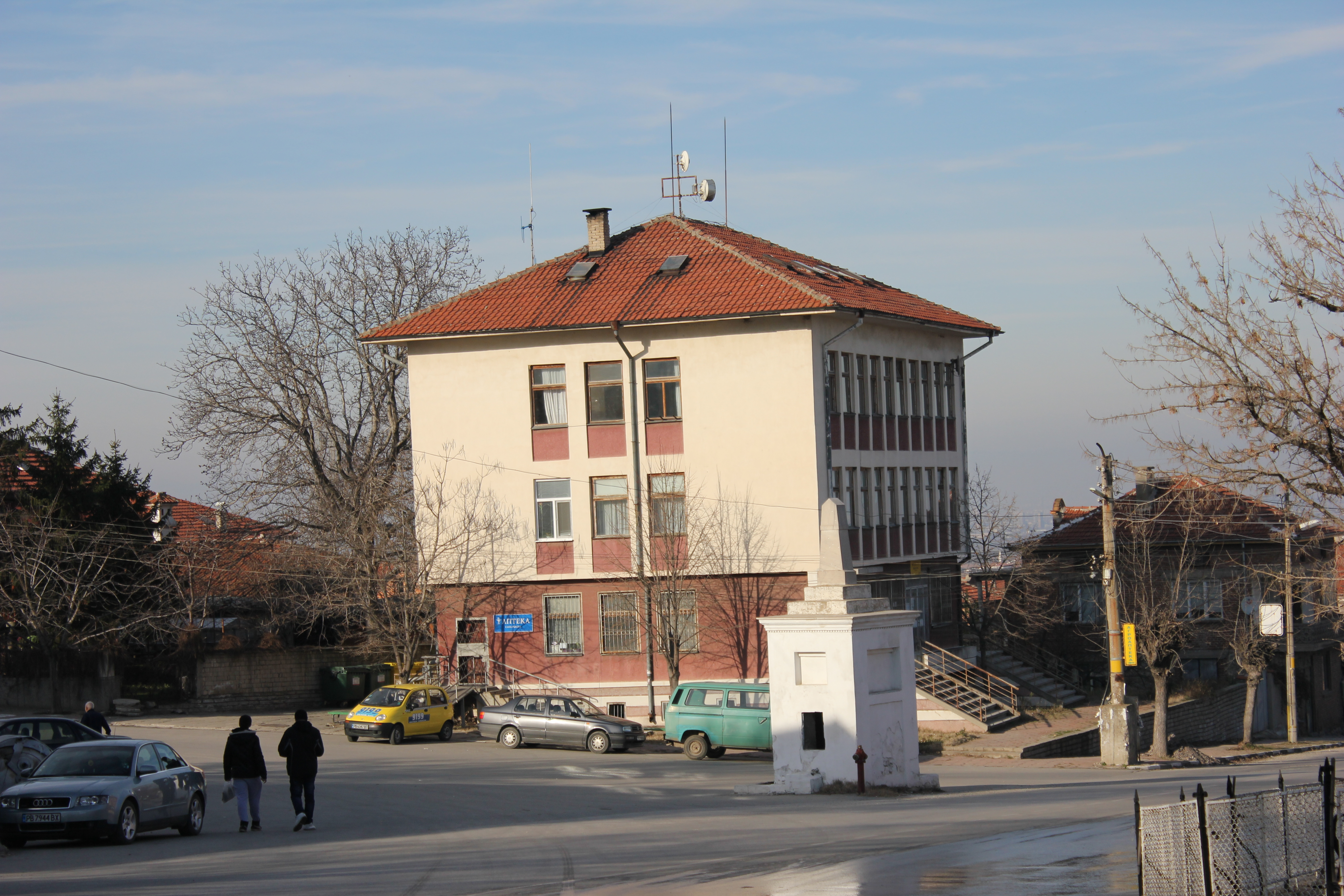 Brestnik center square